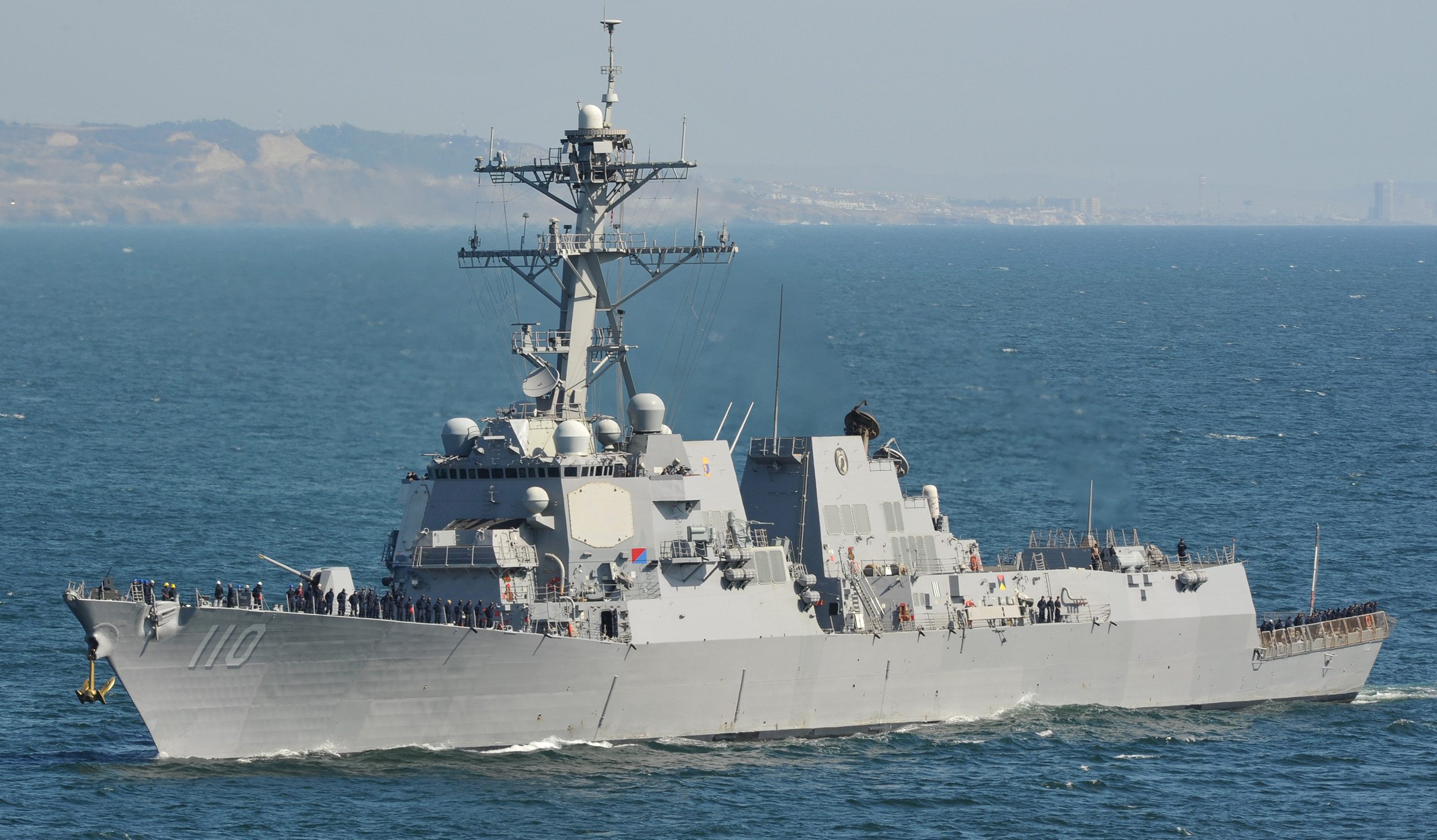 150504-N-OI810-121 PACIFIC OCEAN (May 4, 2015) – The guided-missile destroyer USS William P. Lawrence (DDG 110) steams toward San Diego Harbor. (U.S. Navy photo by Mass Communication Specialist 3rd Class Nathan Burke/Released)